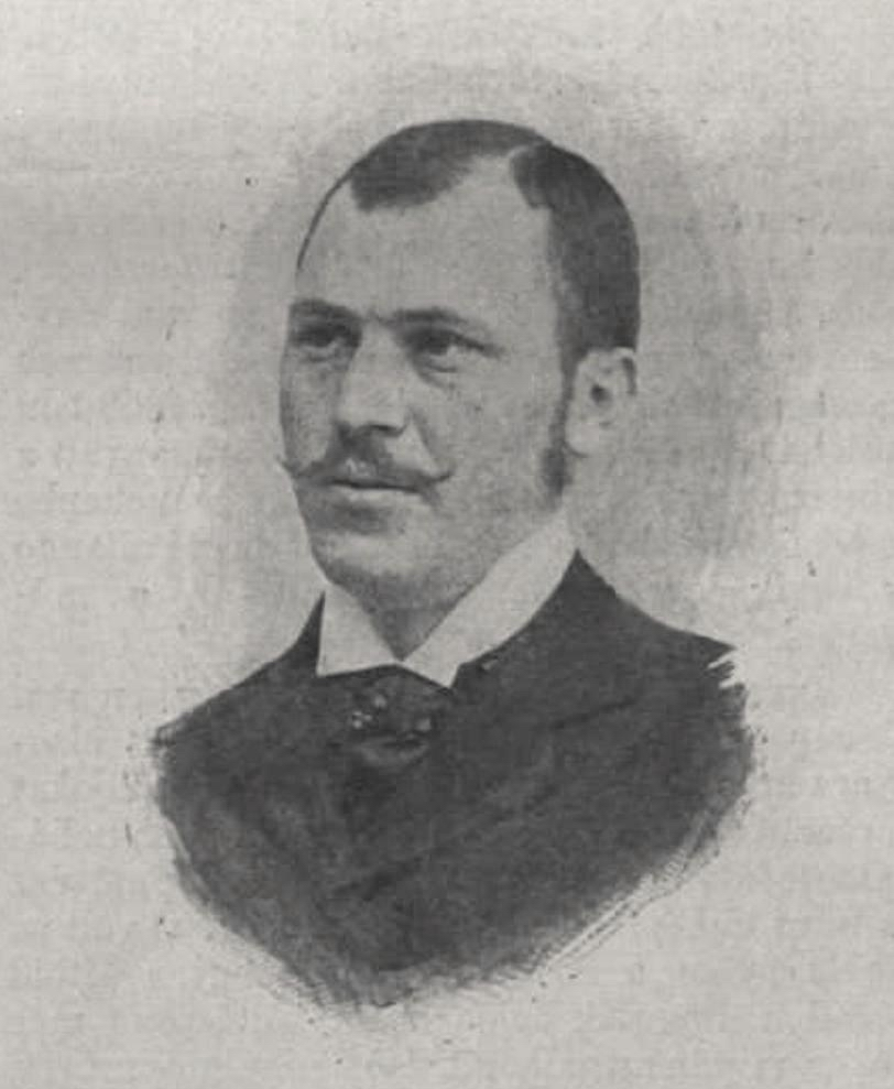 Lajos Szlányi